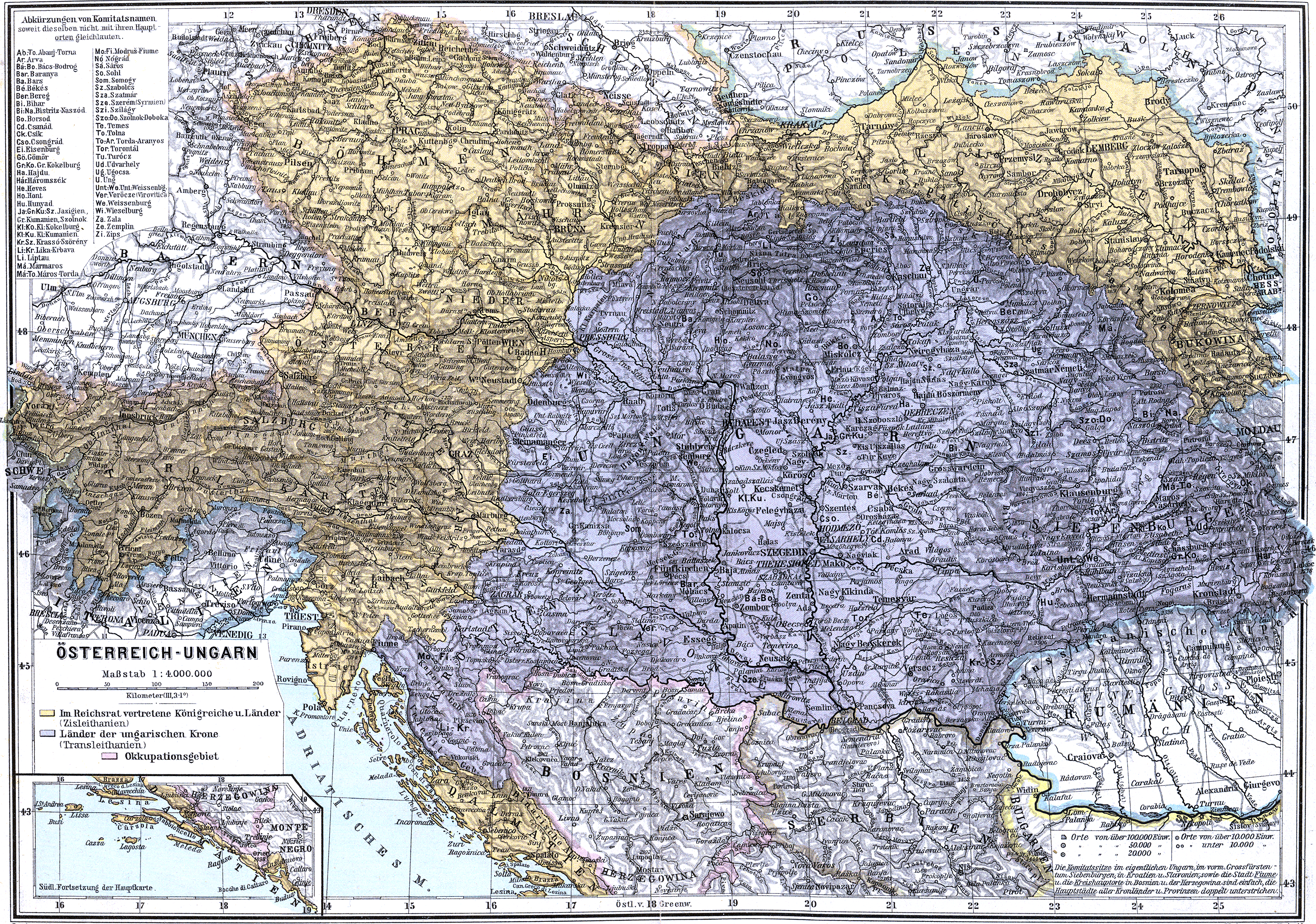 Historical map of Austria-Hungary